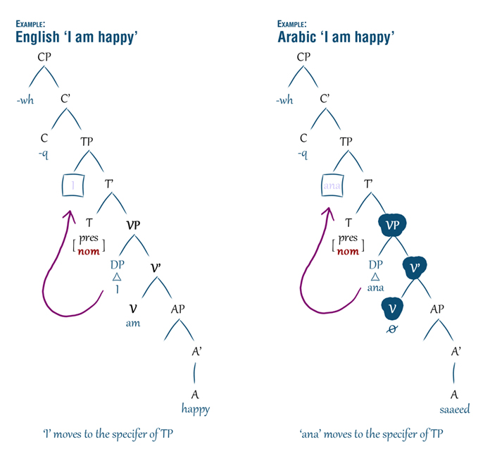 Cross language comparison of 'I am happy' with a copular verb (English) and without (Arabic). The tree structure diagram uses X Bar theory from the 1990s. Licensing under Attribution: Attribution details